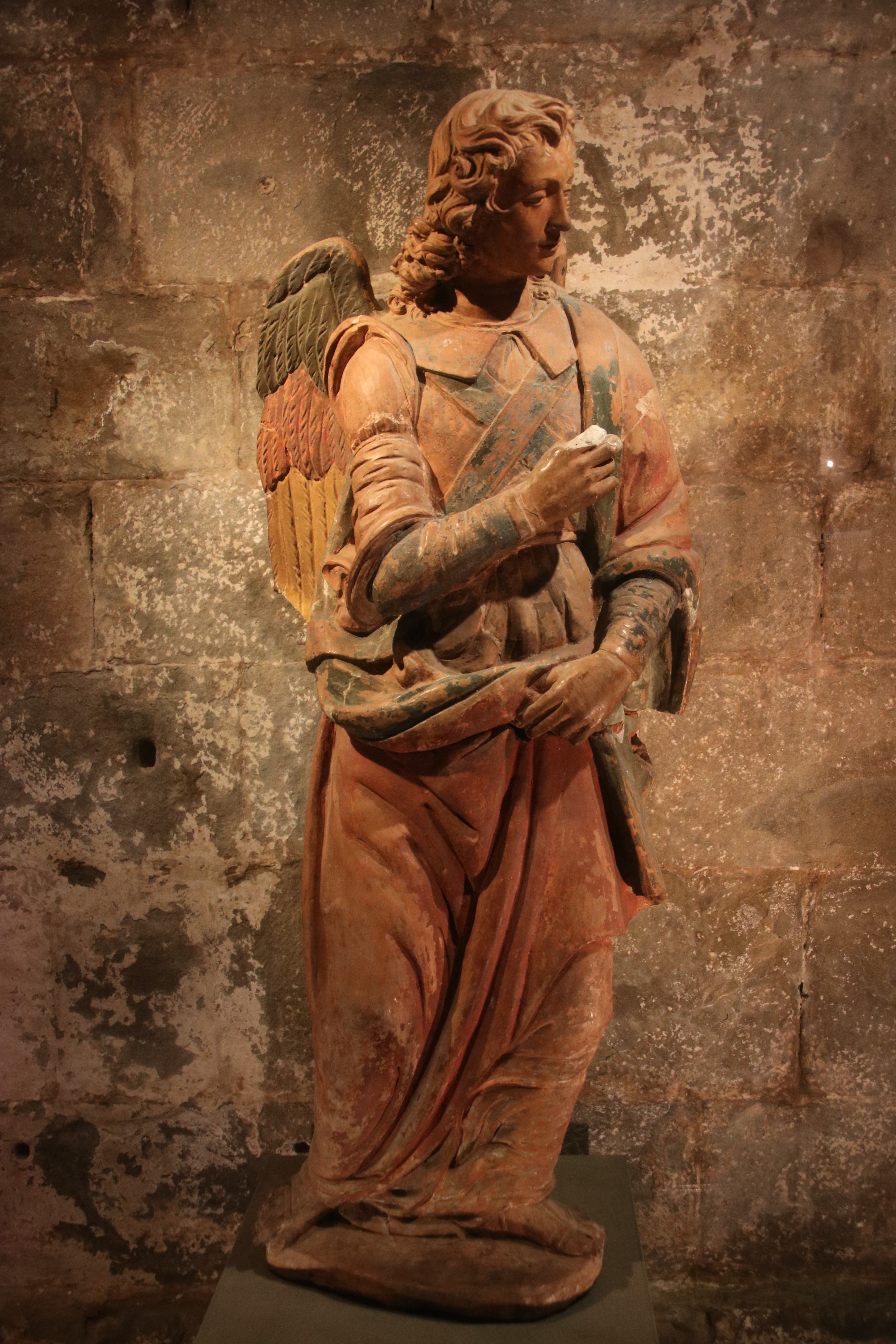 Statue of archangel Gabriel, attributed to Leonardo da Vinci.